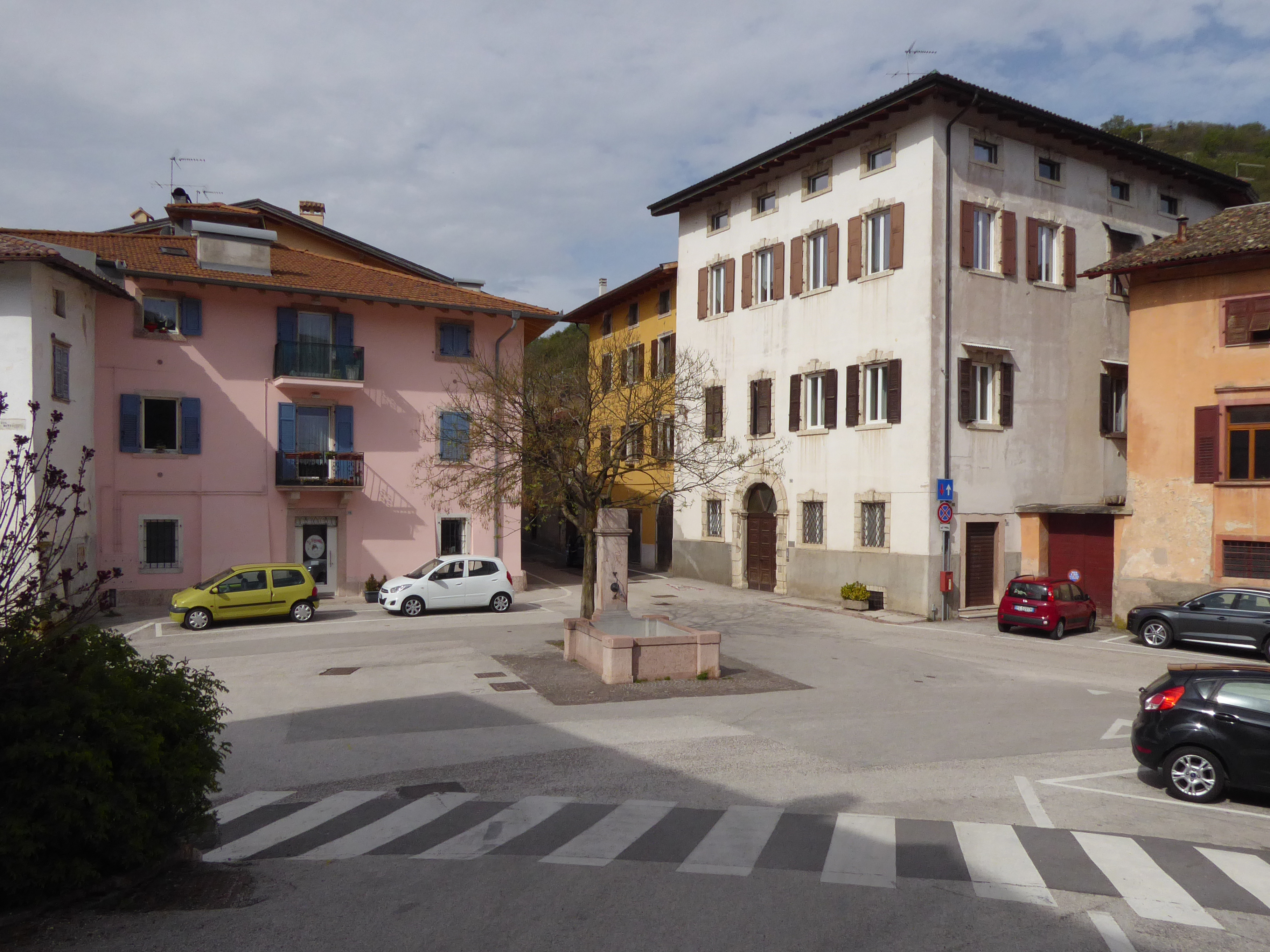 Cadine (Trento, Italy) - Square